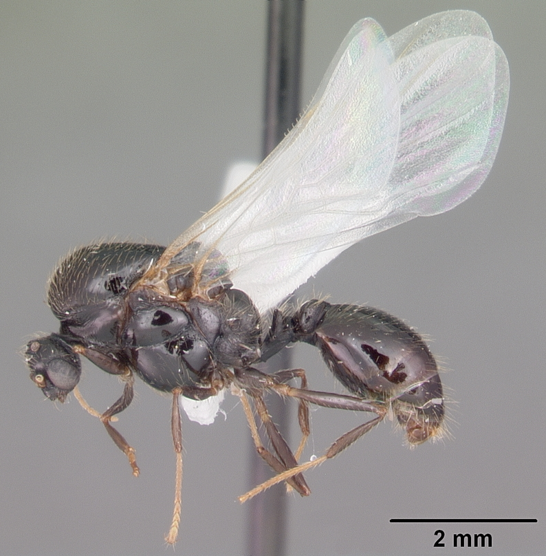 Profile view of ant Solenopsis invicta specimen casent0104503.